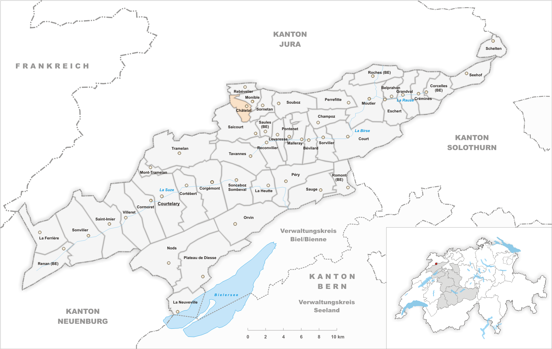 Municipality Châtelat